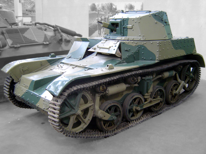 AMR 33 on display at the Musée des Blindés in Saumur. The picture taken August 8, 2006.